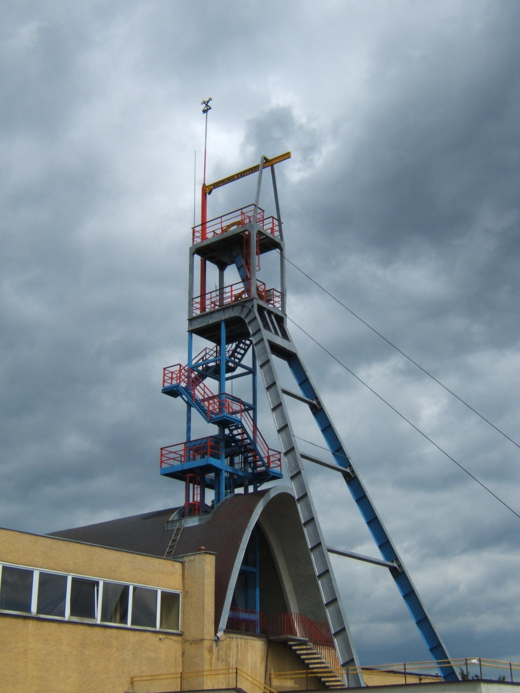 Shaft "Angel" of Historic Mine in Tarnowskie Góry.